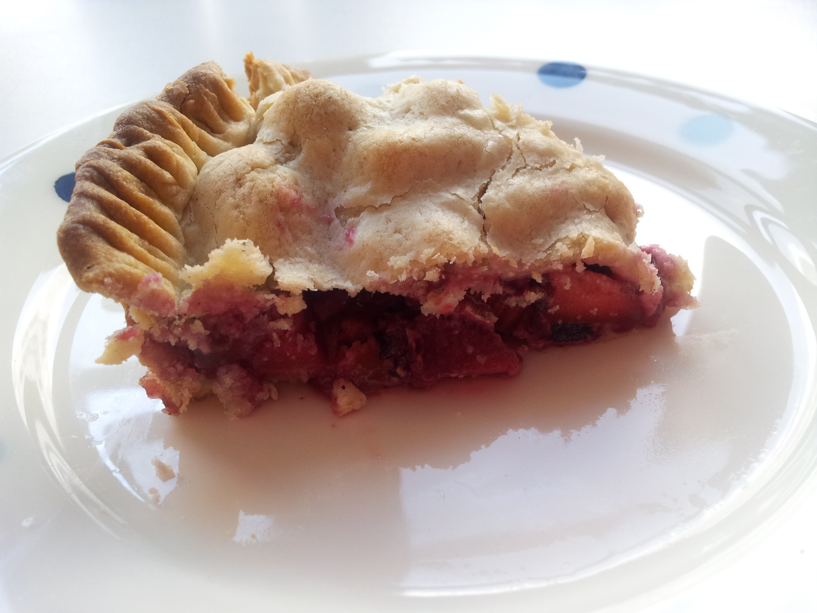 This is a slice of bumbleberry pie, a sweet pie traditionally baked in Canada.